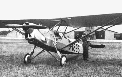 Albatros L.101, Heston, 22 July 1930